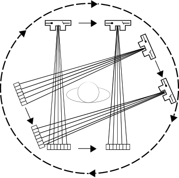 Computed tomography second generation